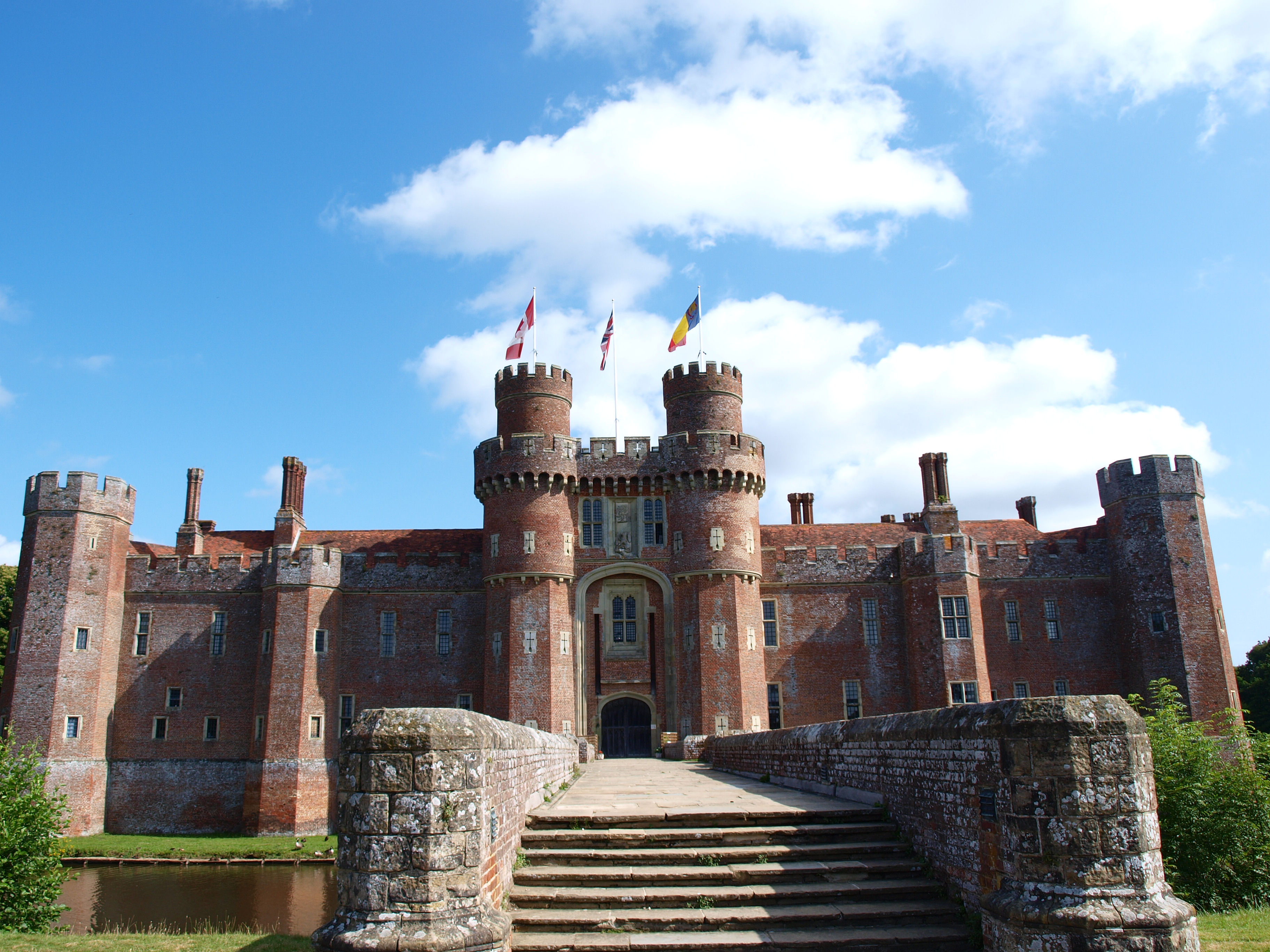 Castle Gate, Herstmonceux